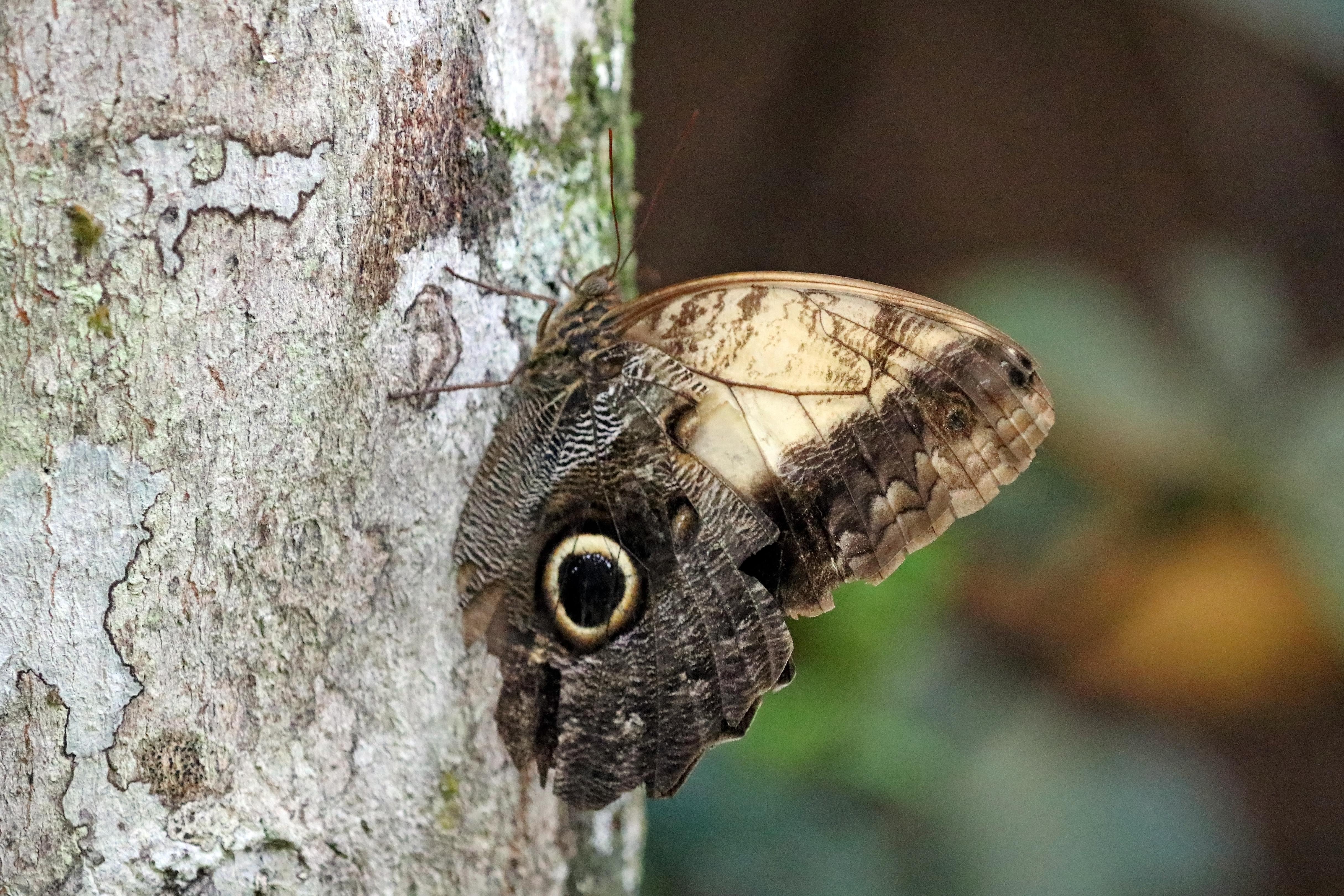 Yellow-fronted owl-butterfly (Caligo telamonius menus), Alajuela, Costa Rica